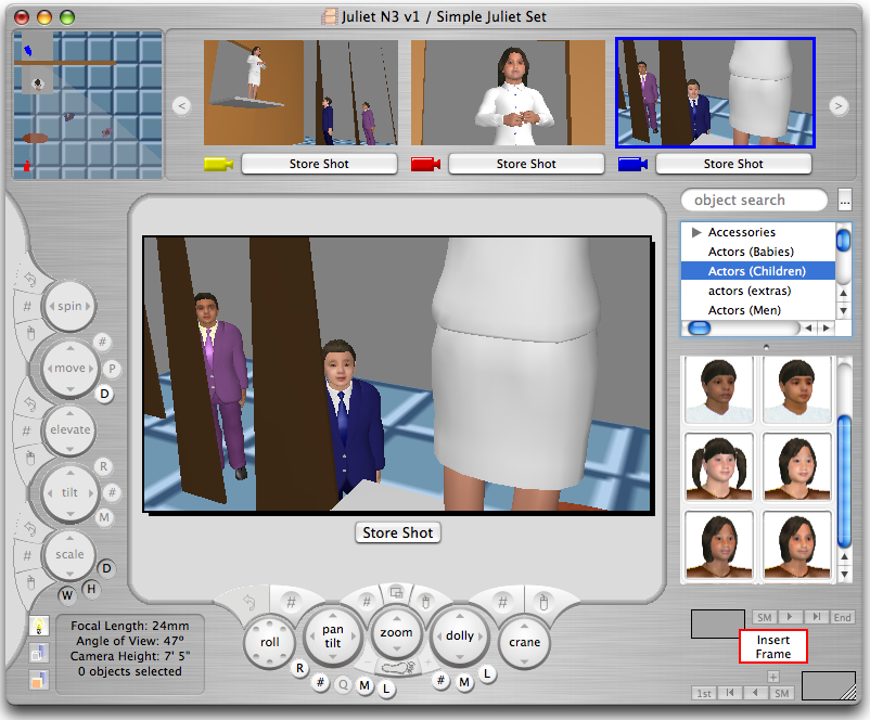 FrameForge 3D studio Main Page for project at Wikiversity Film School